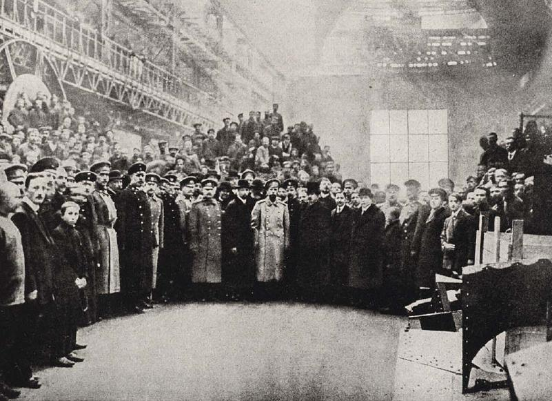 Russian Tzar Nicholas II visiting the Putilov factory in Saint Peterburg.